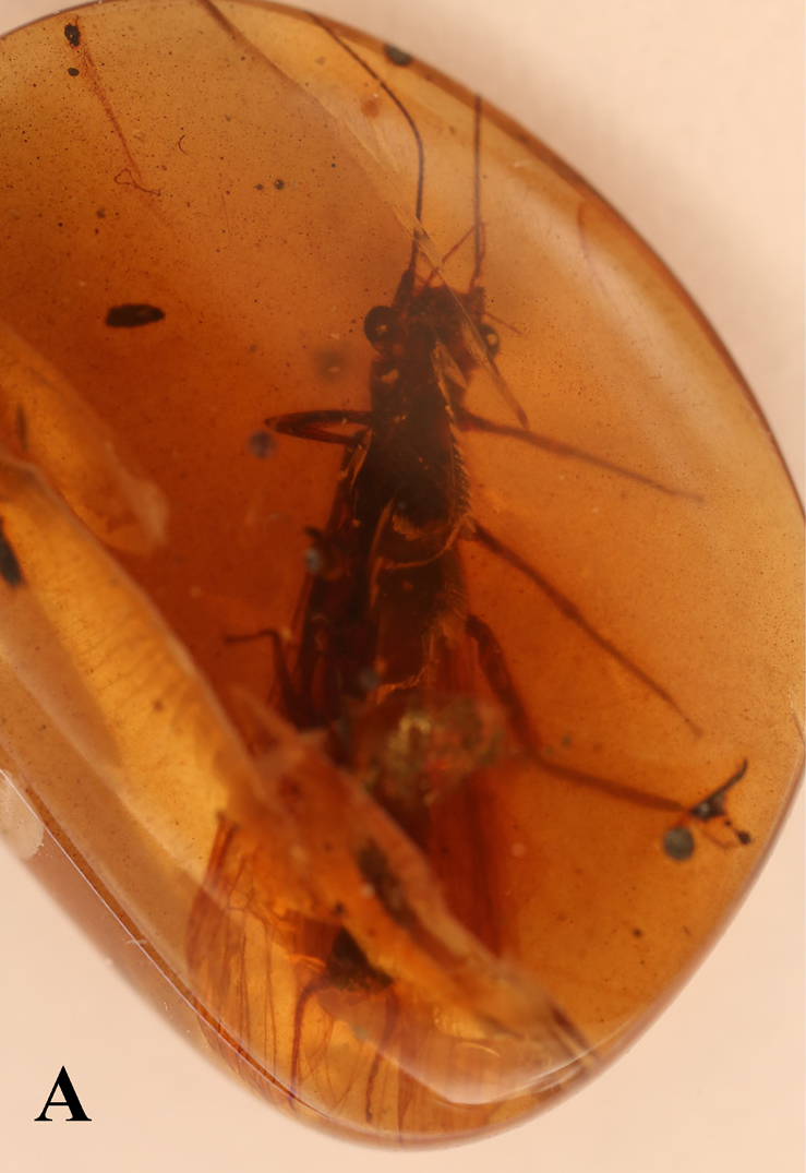 FIGURE 1. Pinguisoperla yangzhouensis, (A) Adult habitus, ventral view